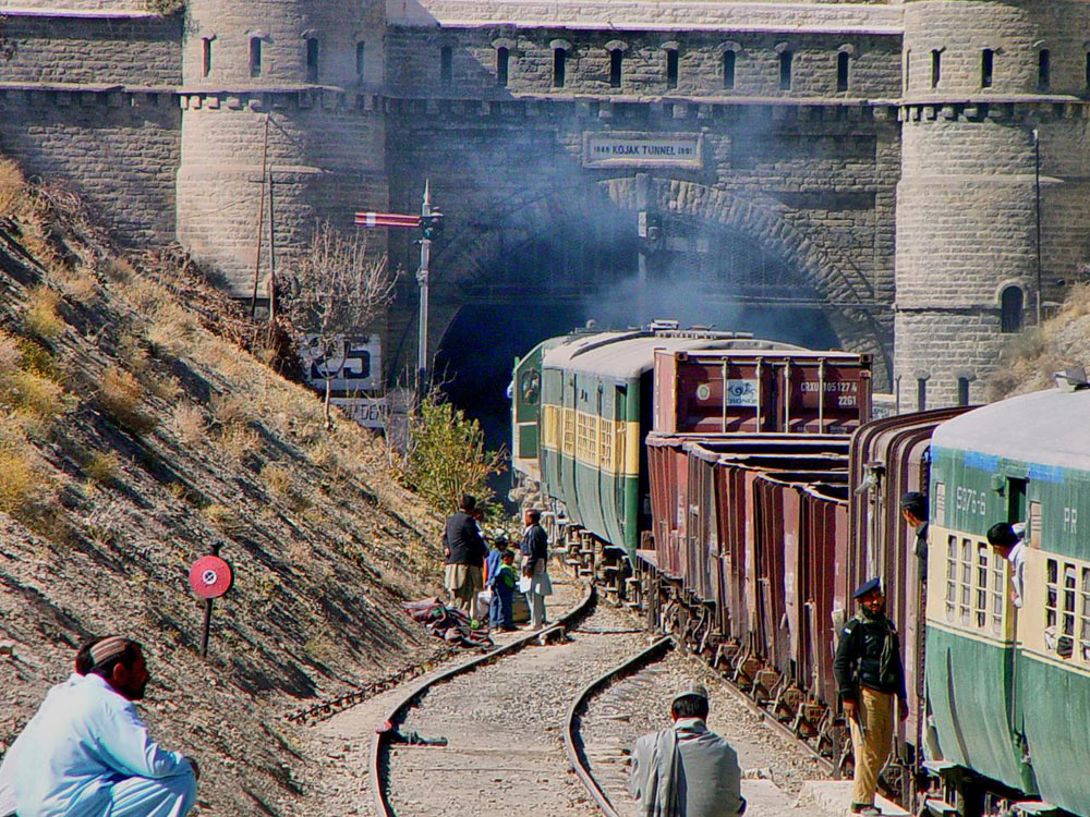 Khojak Tunnel This is a photo of a monument in Pakistan identified as the BA-U-56